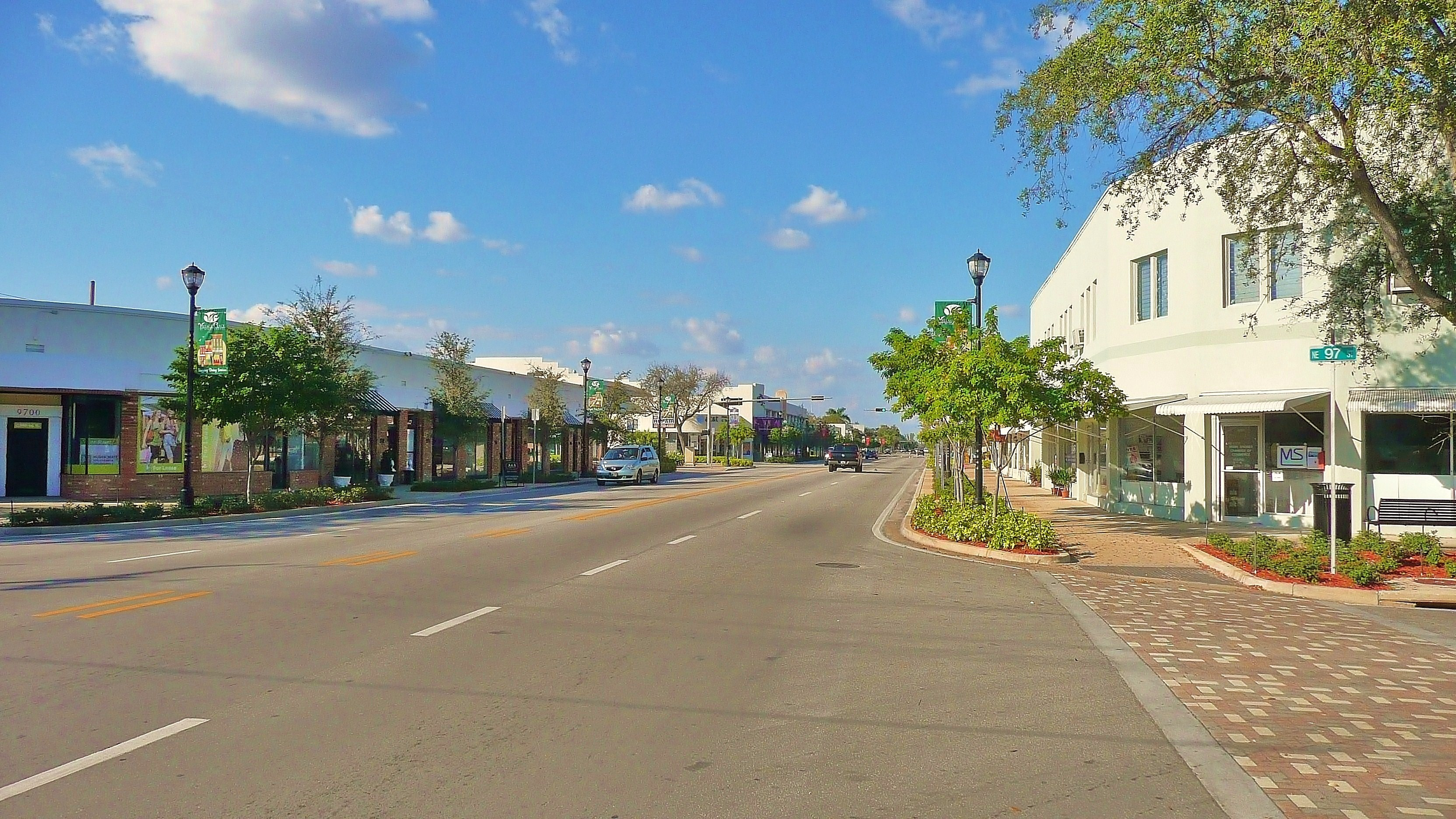 Digital photo taken by Marc Averette. Downtown Miami Shores, Florida, United States.